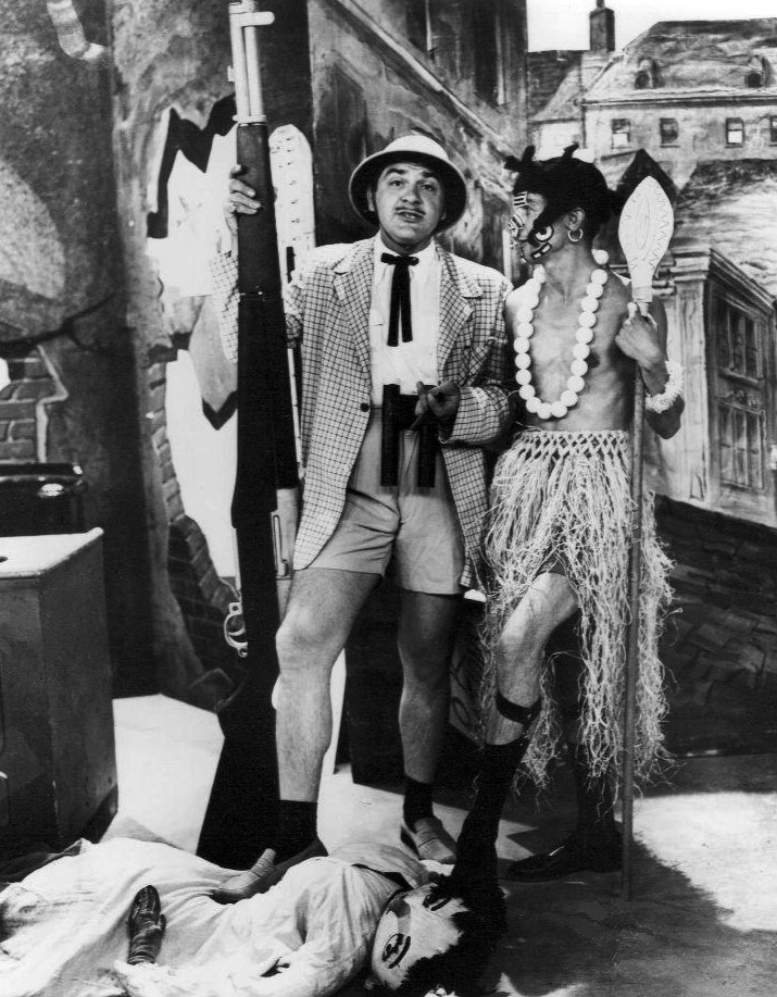 Photo of Ernie Kovacs and Andy McKay from the television program Kovacs Unlimited. This was the local morning show Kovacs moved to after his Phildelphia WPTZ-TV Three to Get Ready was cancelled by the station to make way for the network Today show. The doll in the photo, "Gertrude", was a well-used prop on Kovacs' Philadelphia television program. His associate, Andy McKay, shown in the grass skirt and a mask made of masking tape, began working with him in Philadelphia and moved to New York to continue work with Kovacs.